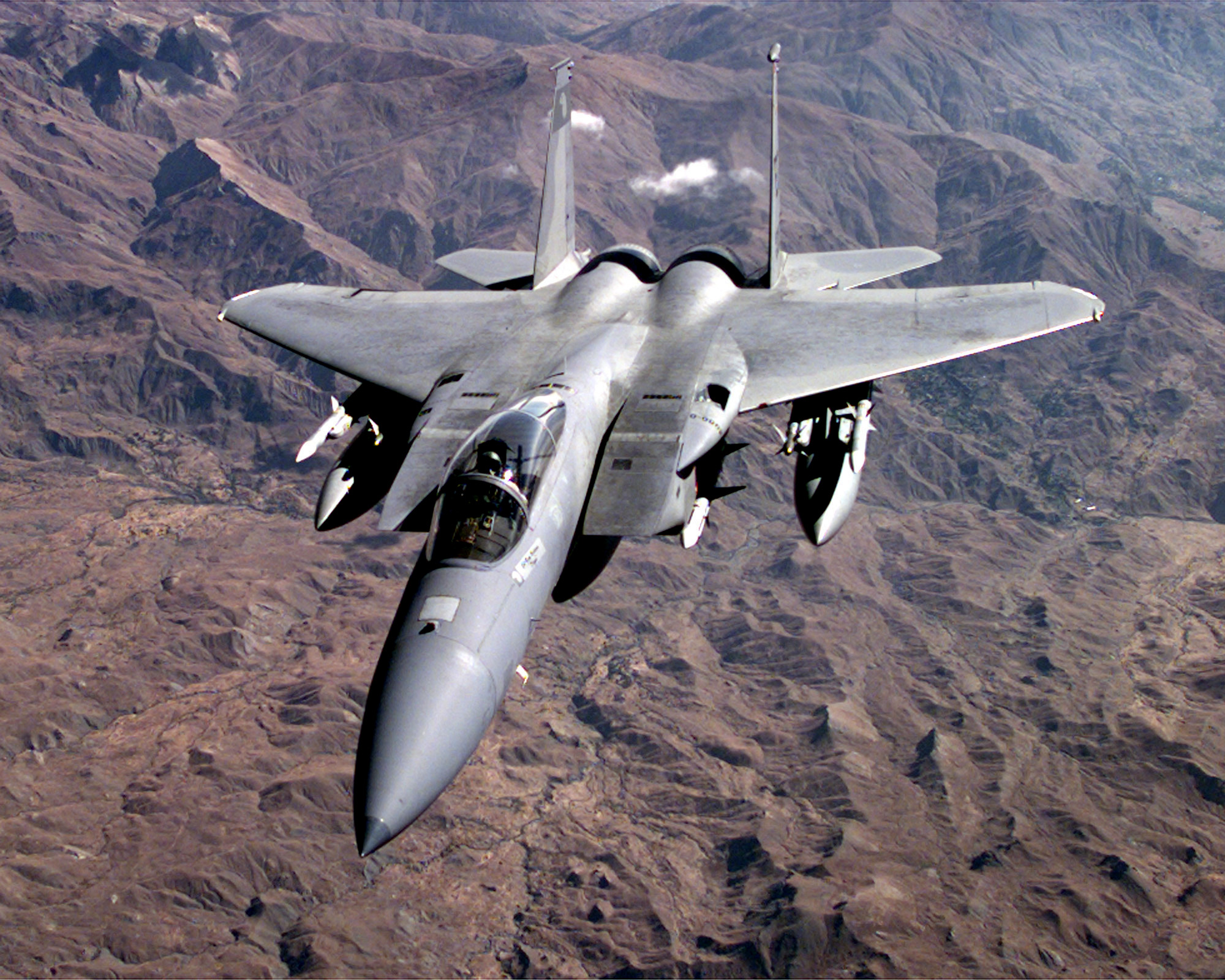 A U.S. Air Force F-15C Eagle conducts a routine patrol over Northern Iraq on Dec. 30, 1998, in support of Operation Northern Watch. Northern Watch is the coalition enforcement of the no-fly-zone over Northern Iraq.